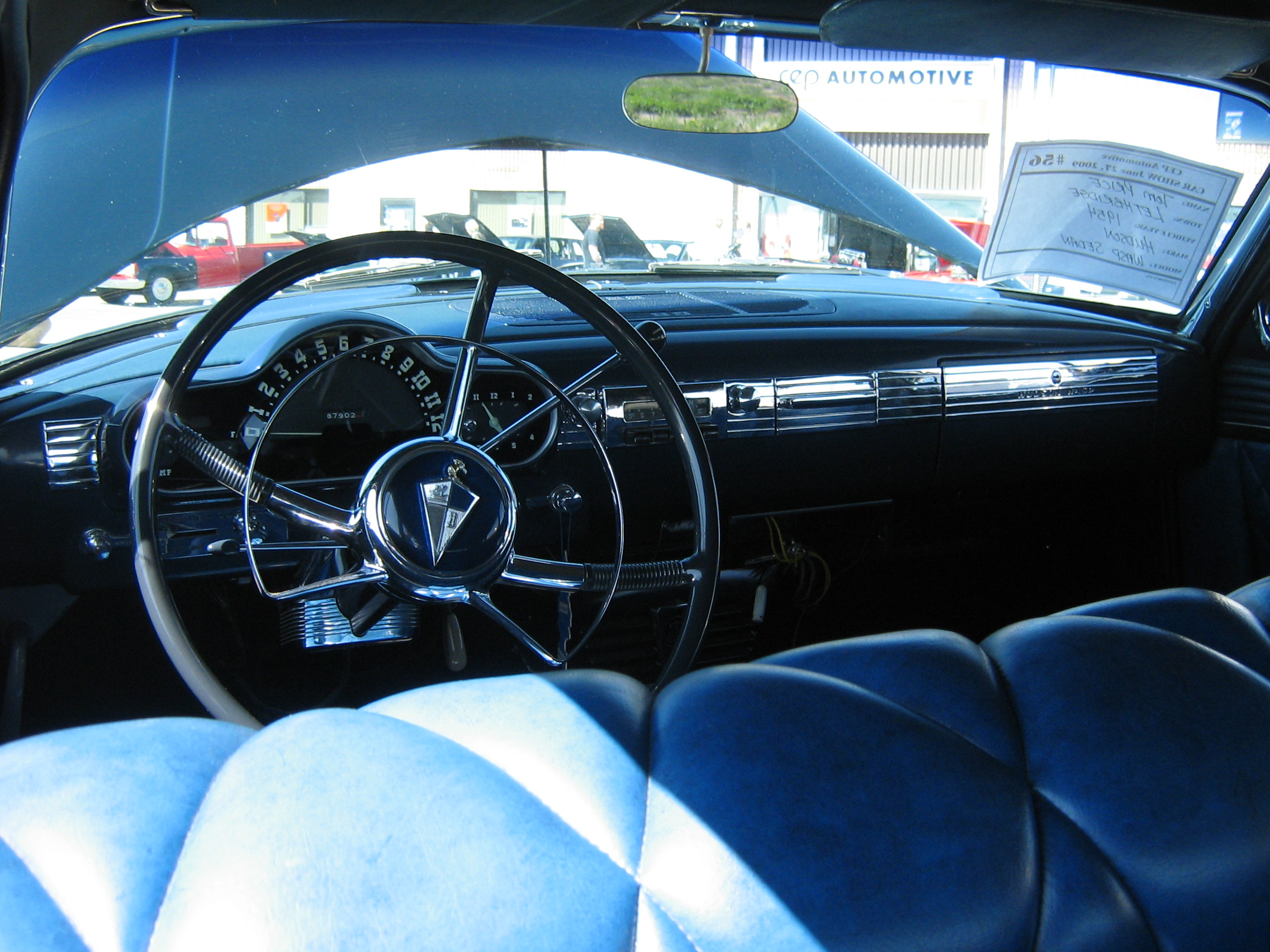 1954 Hudson Wasp